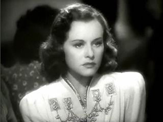 Cropped screenshot of Paulette Goddard from the film Dramatic School